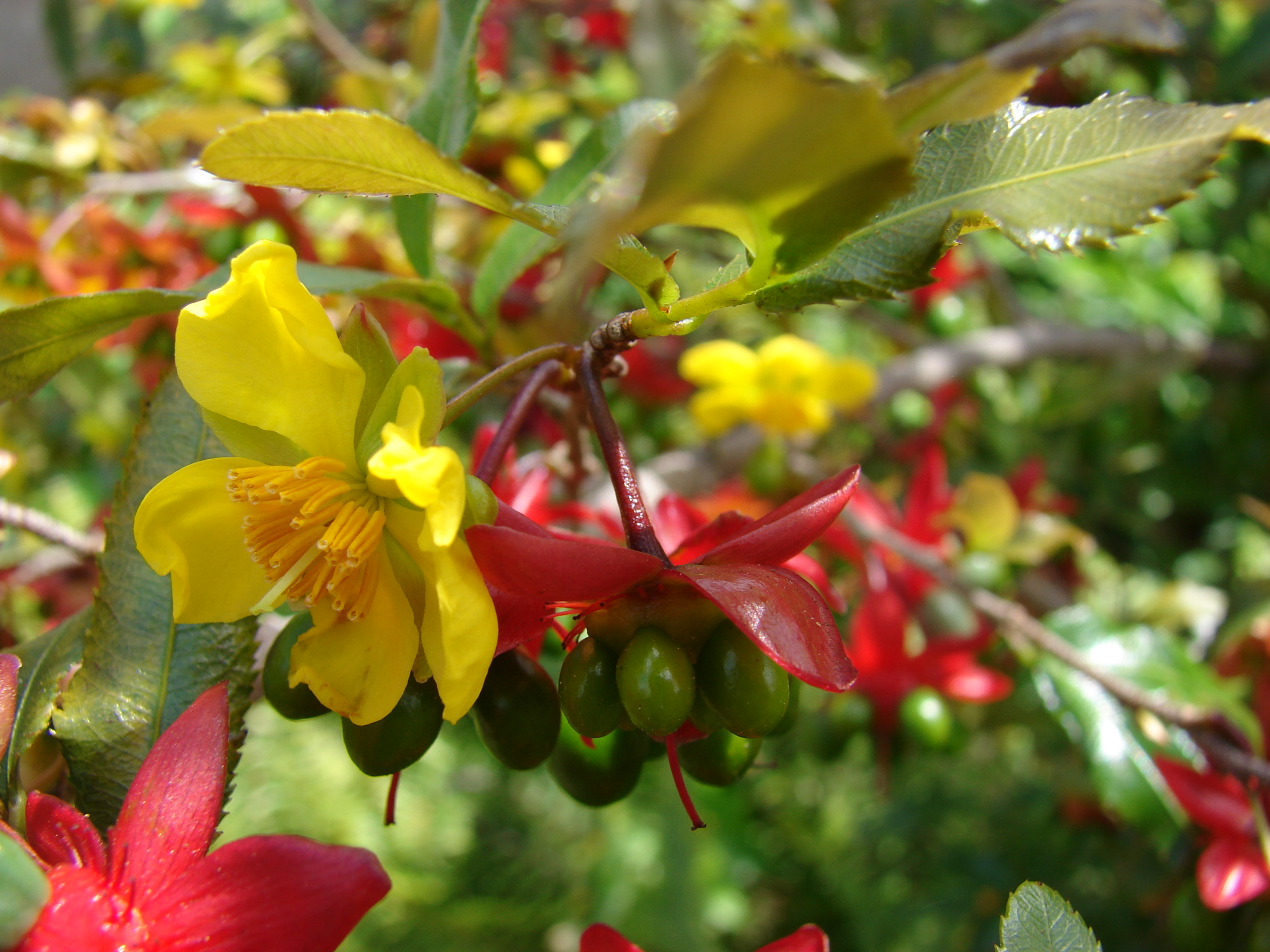 Ochna serrulata (flowers sepals green fruit and leaves). Location: Maui, Kula Experimental Station